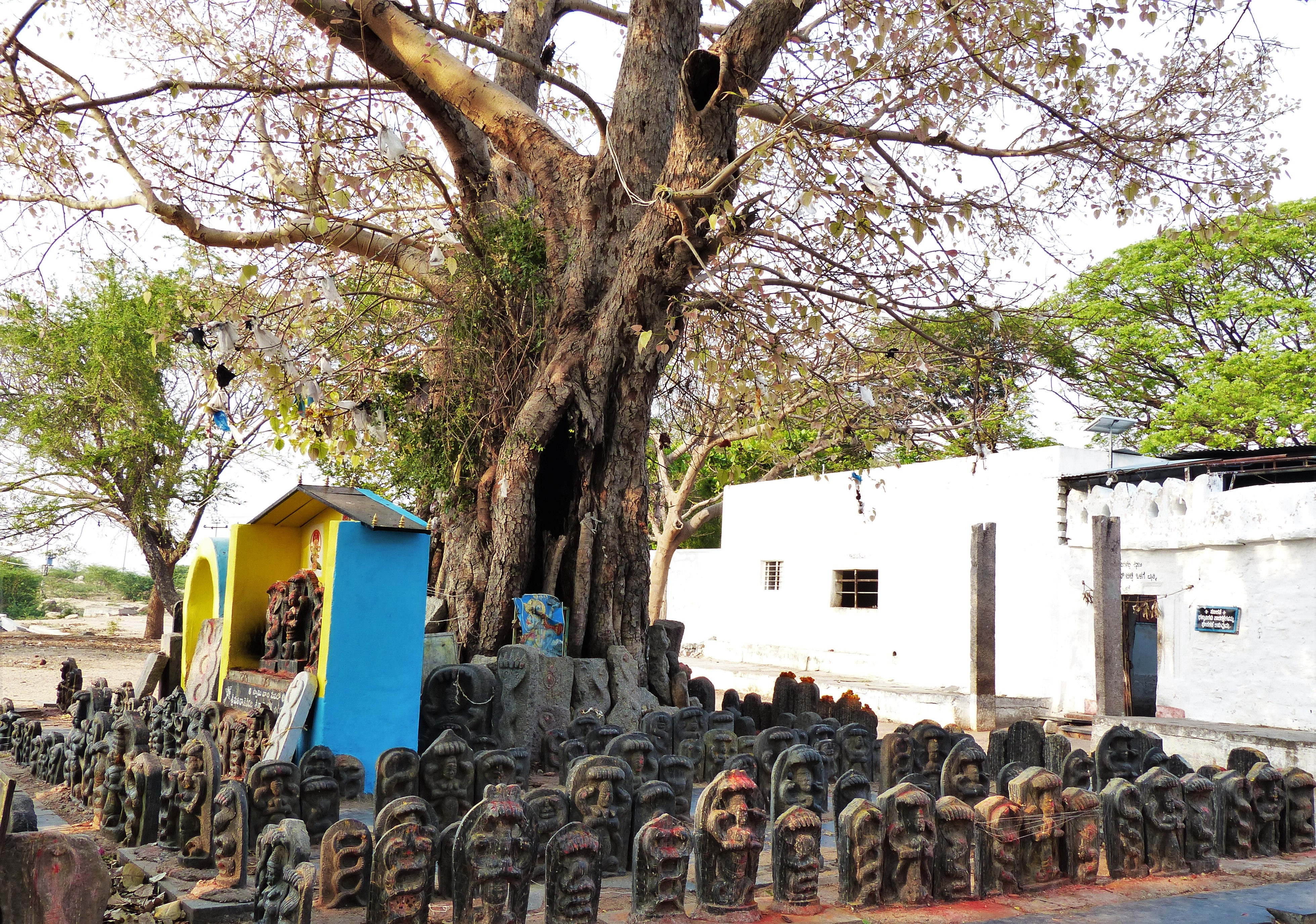 Front view of Lord Subramanya Swamy temple at Nagulamadaka